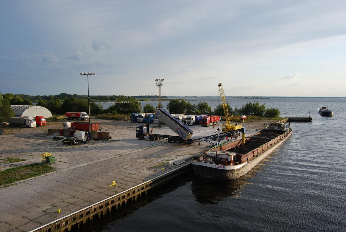 The port of Stepnica - Southern Quay